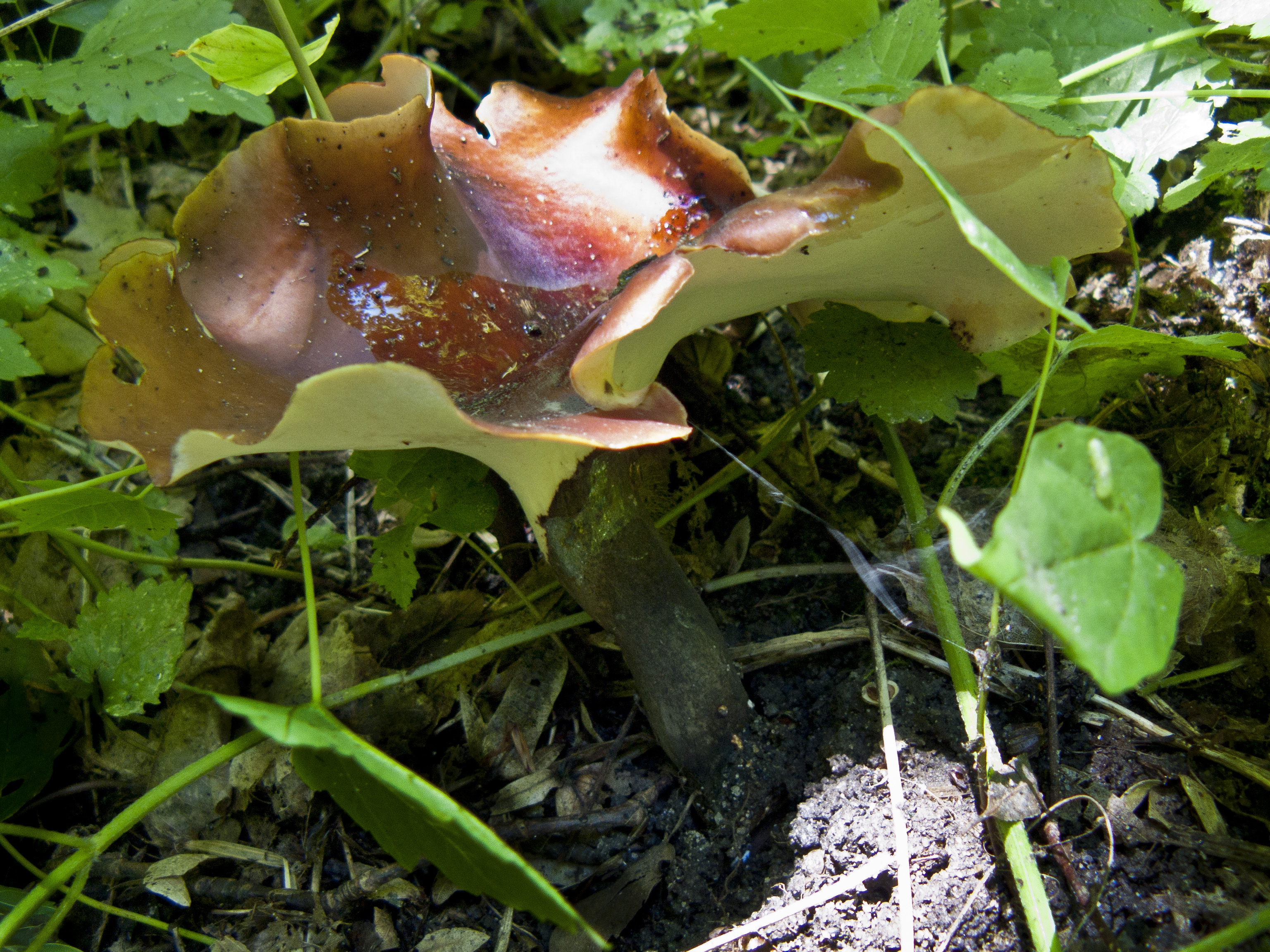 Údolí Plakánek Natural Reserve. Polyporus badius.